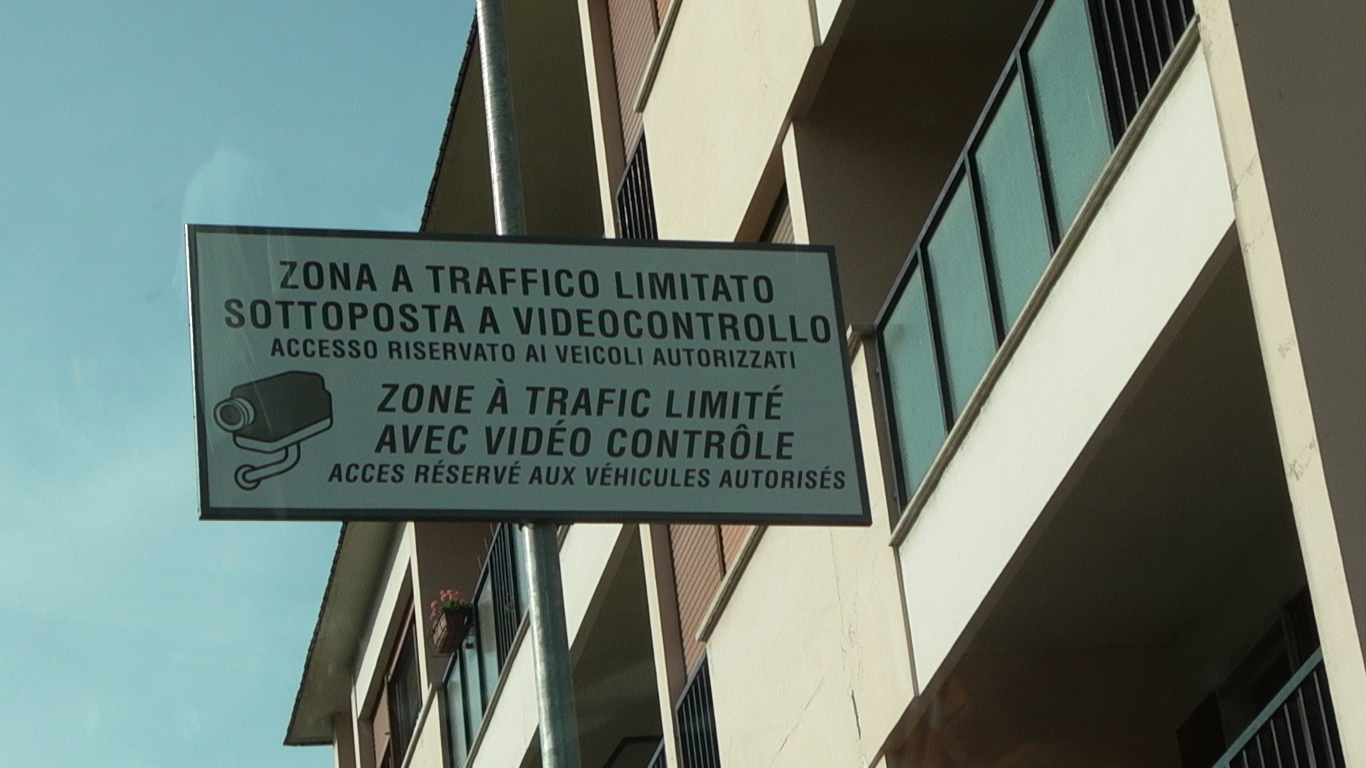 Bilingual road signs in Aosta-Aoste (Italy)